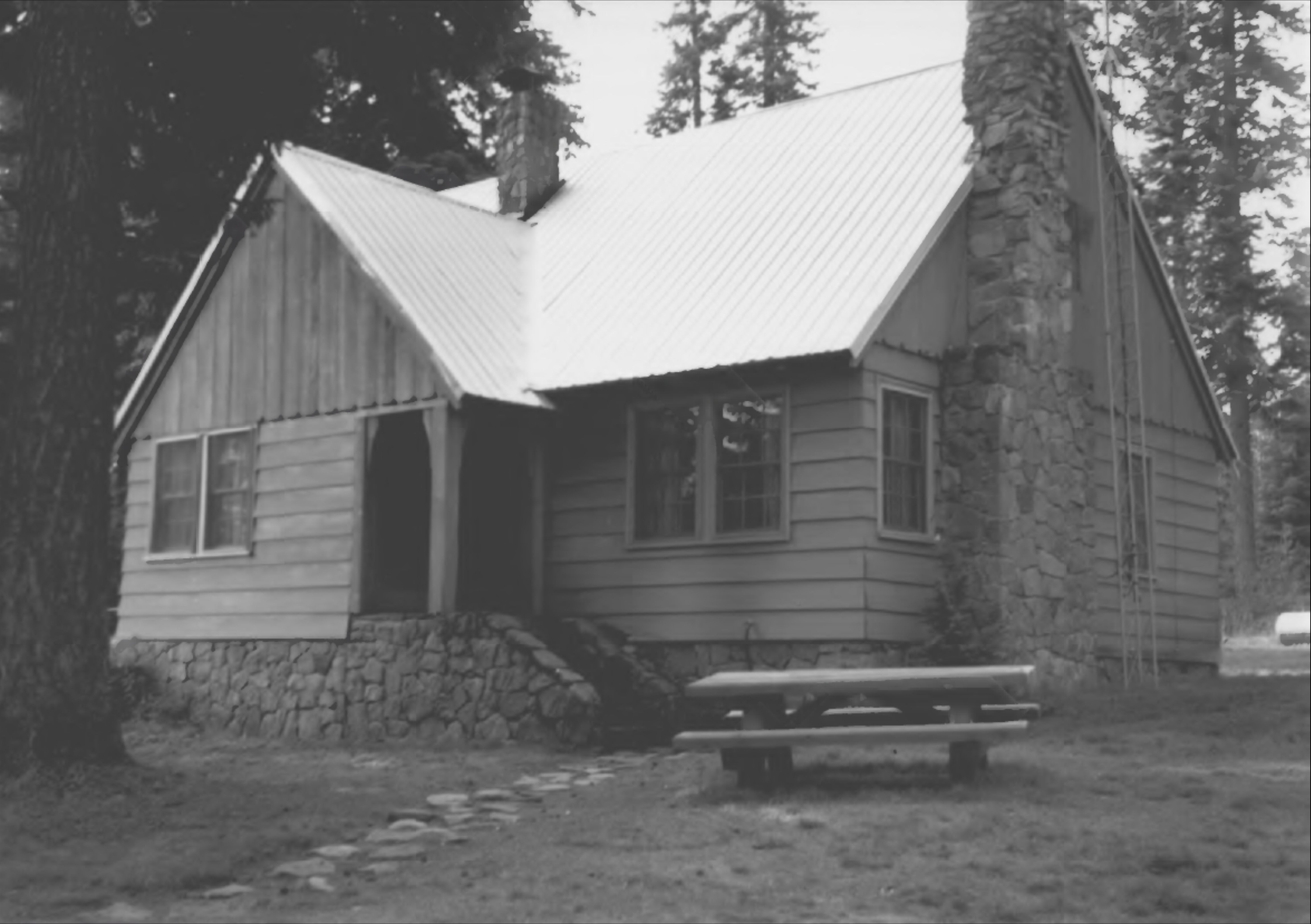 Ranger residence at Lake of the Wood Ranger Station in the Winema National Forest of southern Oregon